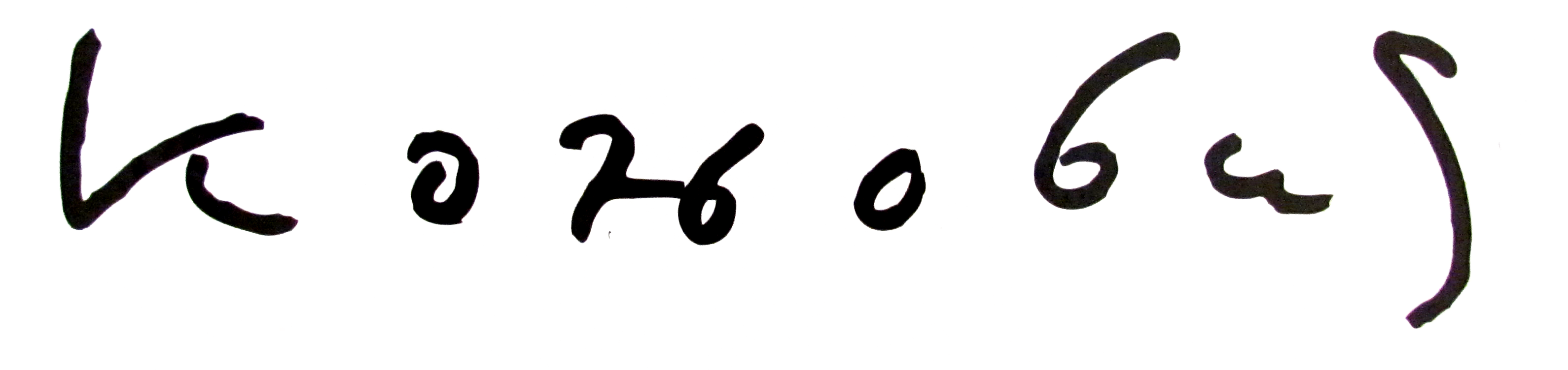 Autograph of Milan Konjovic, Serbian painter